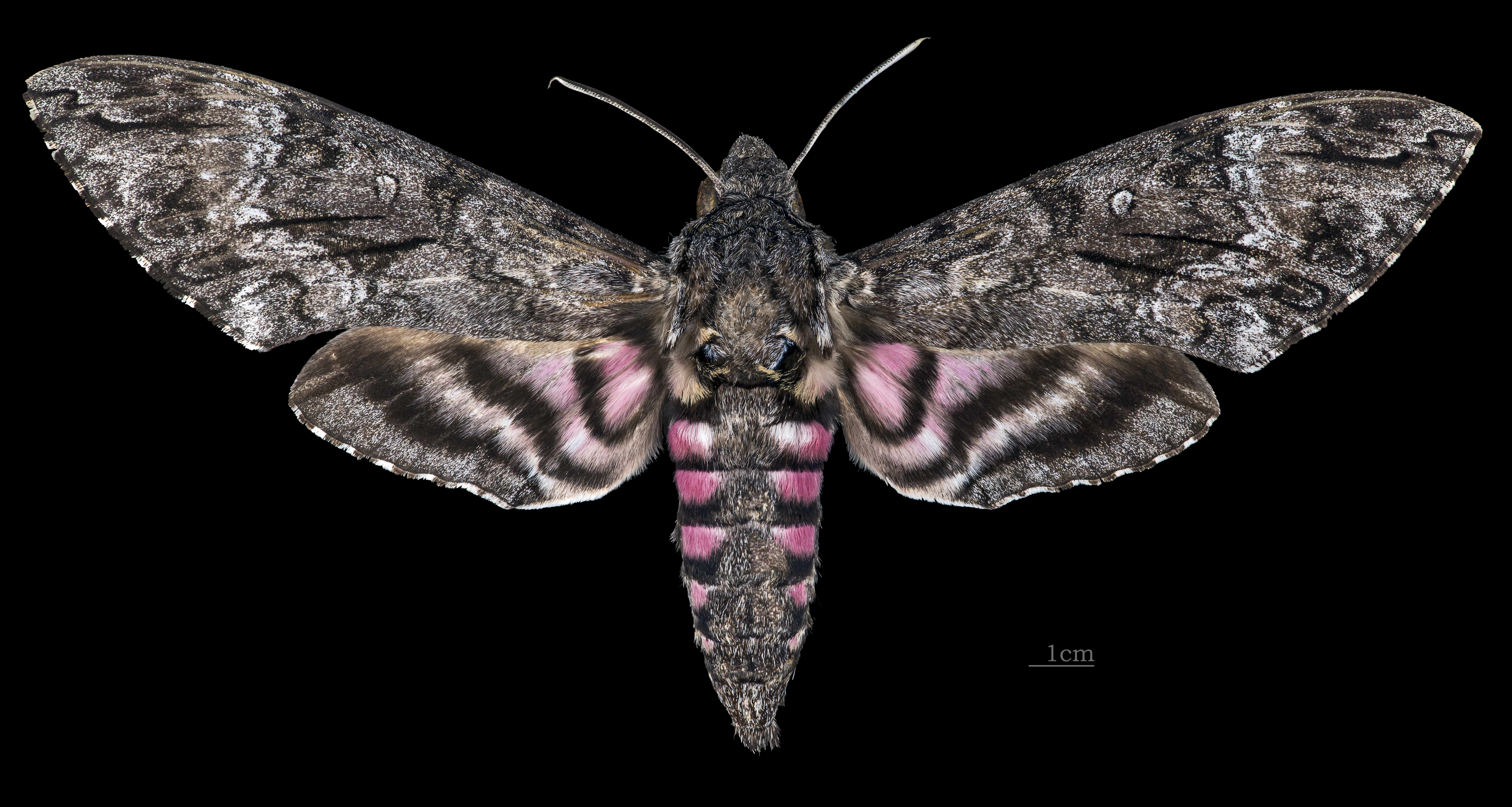 Pink-spotted Hawkmoth - Dorsal side Collection of the Mathematician Laurent Schwartz